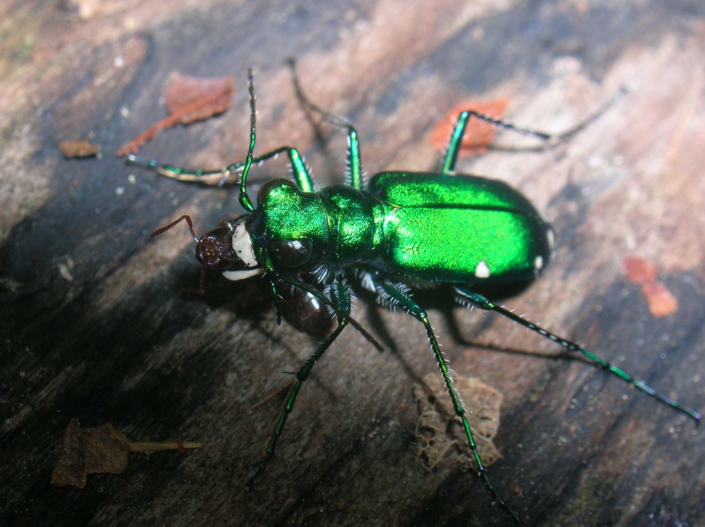 Cicindela sexguttata eating an ant.